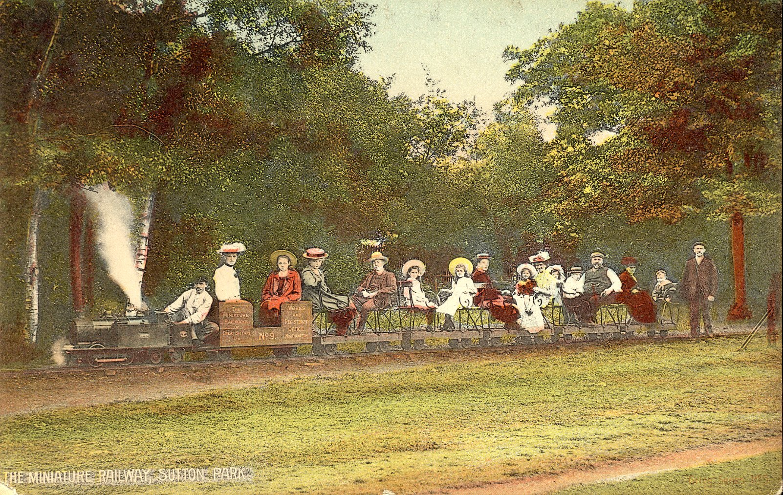 Postcard showing locomotive 'Nipper' on the miniature railway in Sutton Park, Sutton Coldfield, England. TinEye finds no other instances, so not able to determine author.